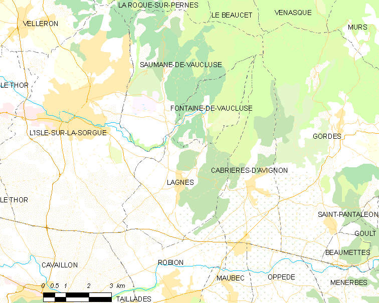 Map of French municipality Lagnes